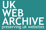 Logo for the UK Web Archive